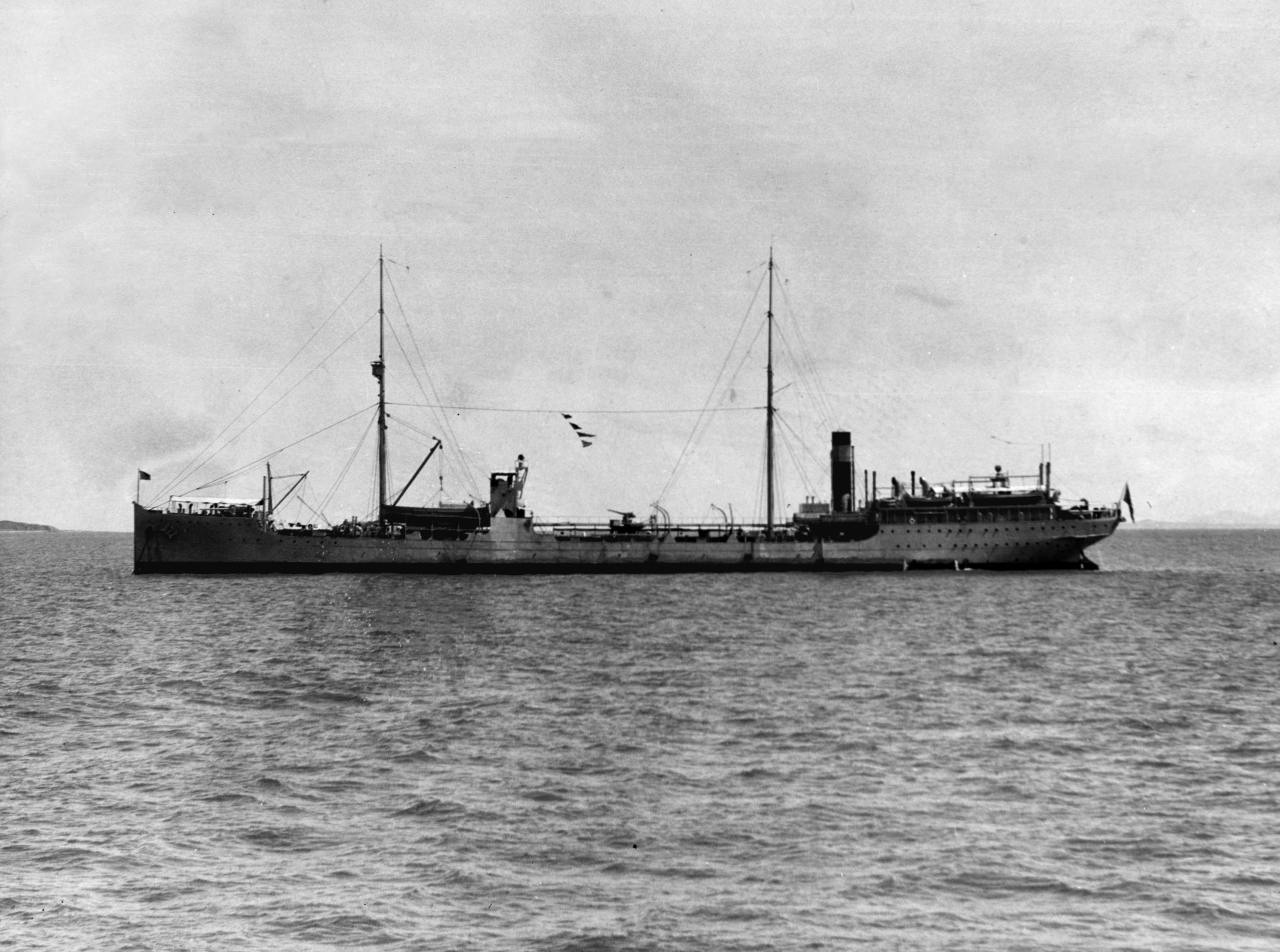 The U.S. Navy fleet oiler USS Pecos (AO-6) in Chefoo harbour (today Yantai), China, on 14 September 1928.